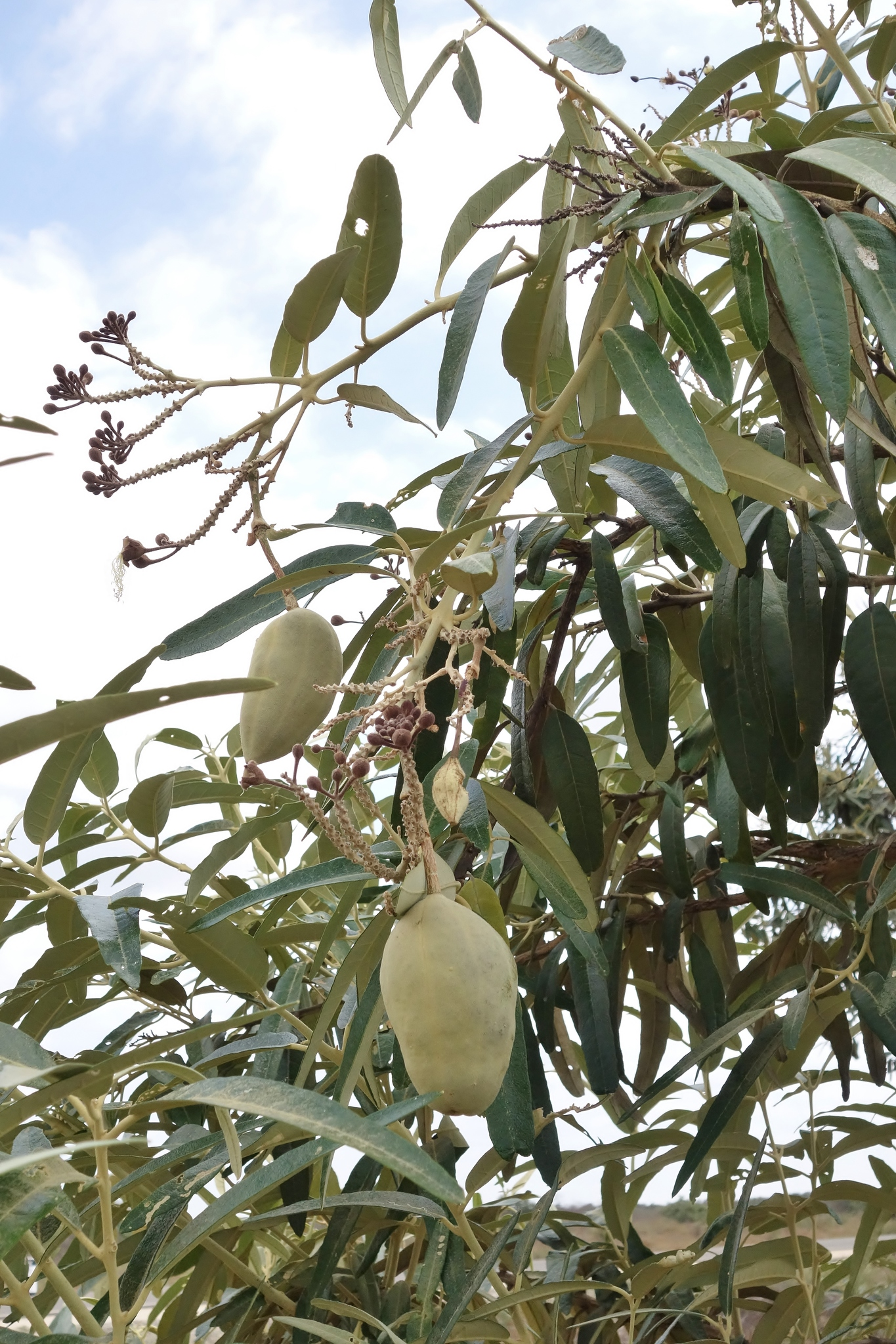 Colicodendron scabridum. Species of plant.